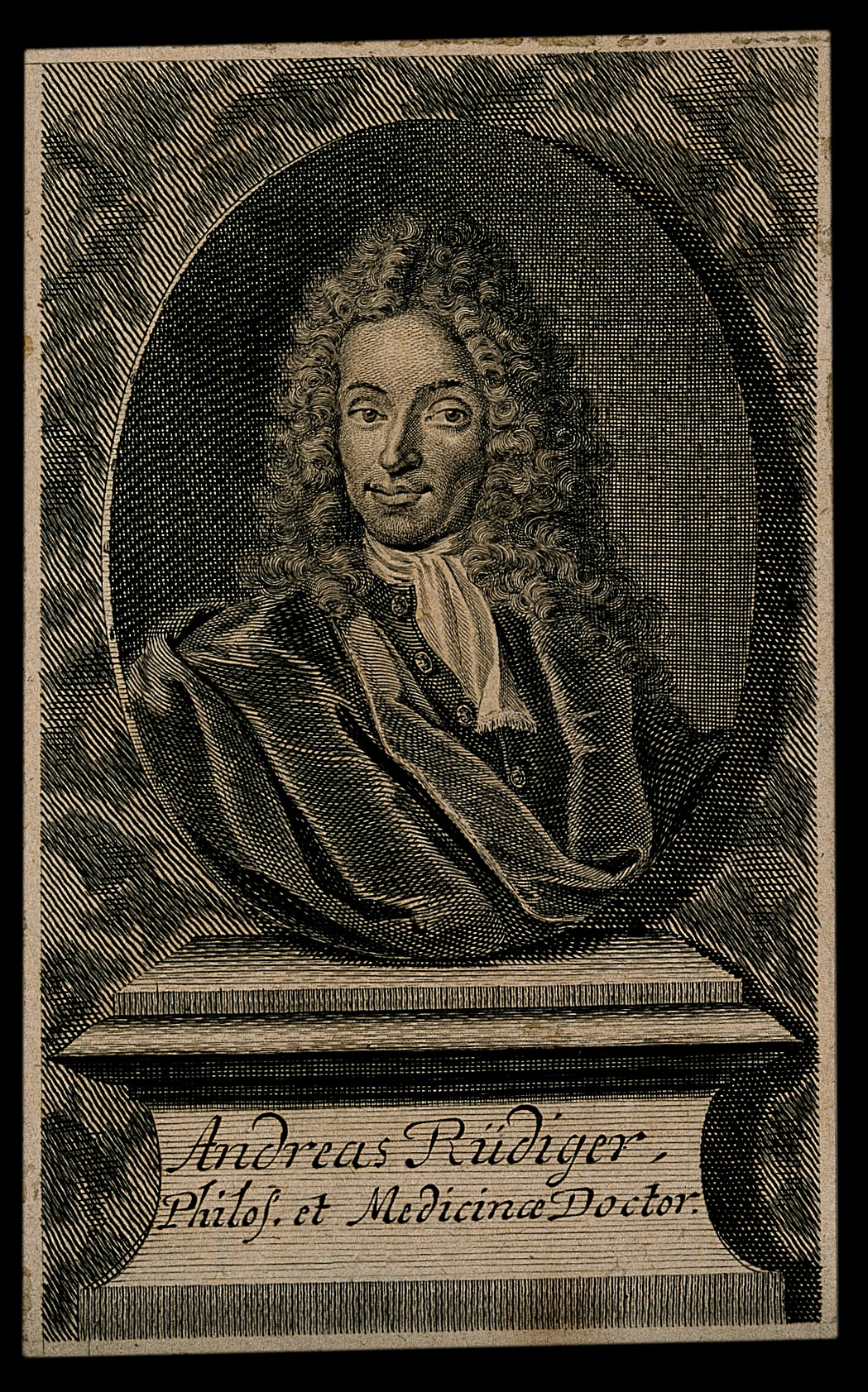 Andreas Rüdiger [Ridiger]. Line engraving. Iconographic Collections Keywords: Andreas Ruediger